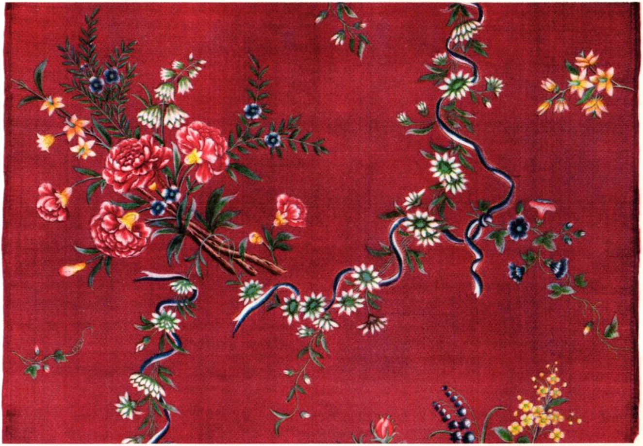 Chinese silk with painted pattern, imported by the Swedish East India Company in the 1700s. Nordic Museum. Through Project Runeberg.